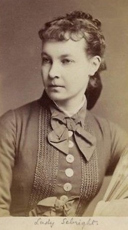 Georgina Muir Mackenzie later Lady Sebright - Georgina Muir Mackenzie (1833–1874) was a British Balkan sympathiser, writer and traveller.